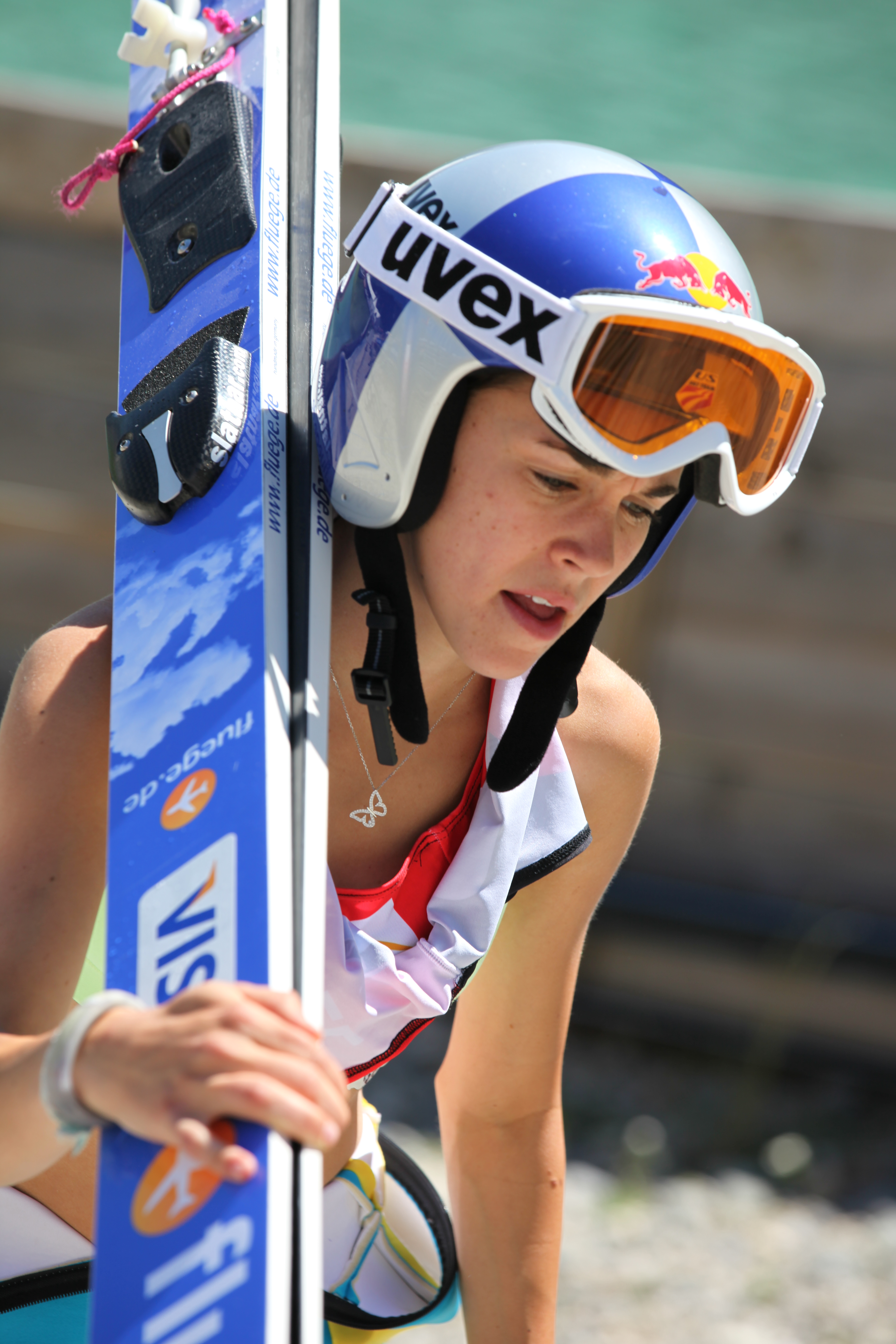 Sarah Hendrickson, silver medalist at the Summer Grand Prix ski jumping event in Courchevel